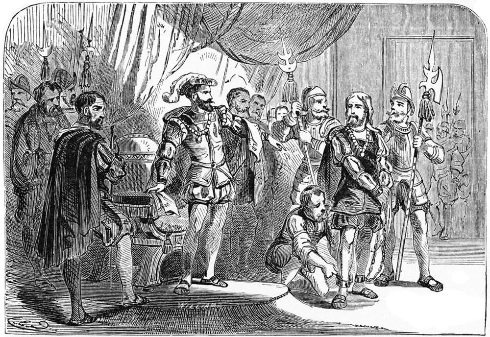 Francisco de Bobadilla arrests Christopher Columbus in La Hispaniola island